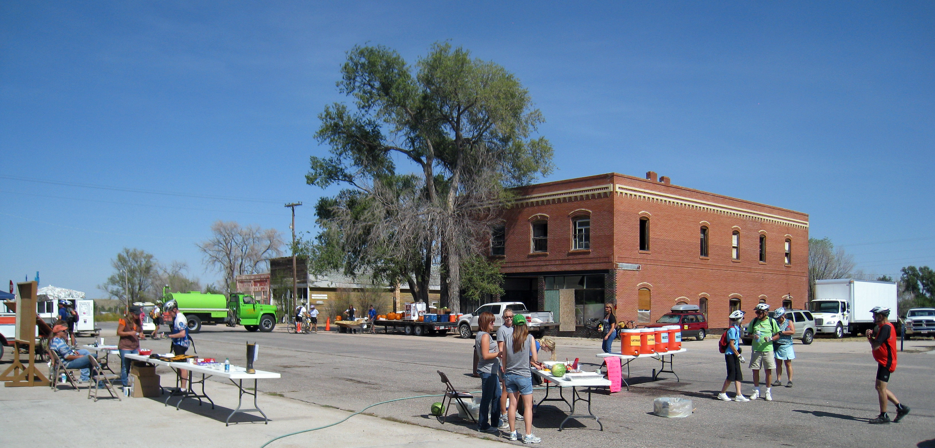 Picture taken during the 2012 Pedal the Plains